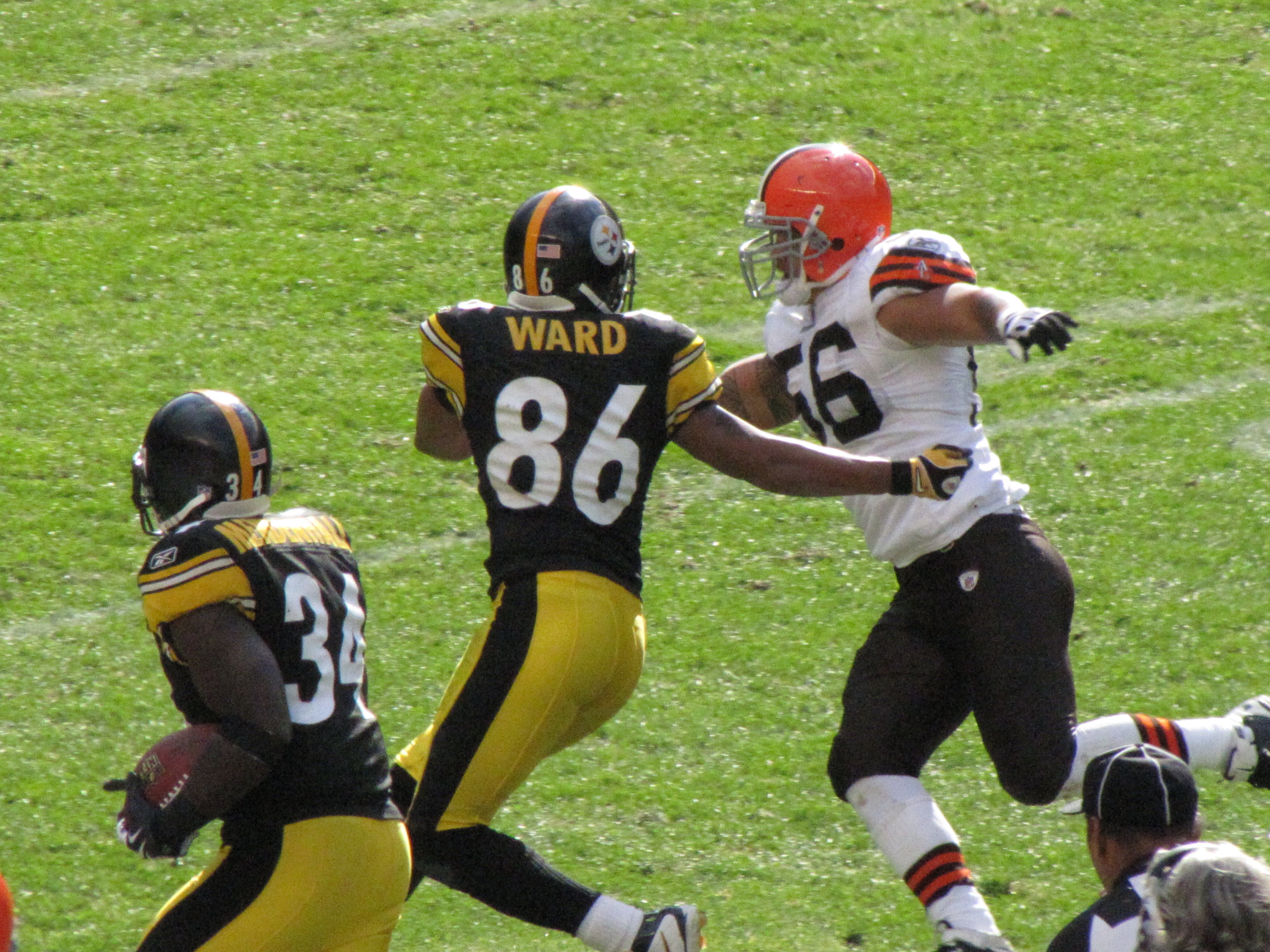 Hines Ward blocks for Rashard Mendenhall